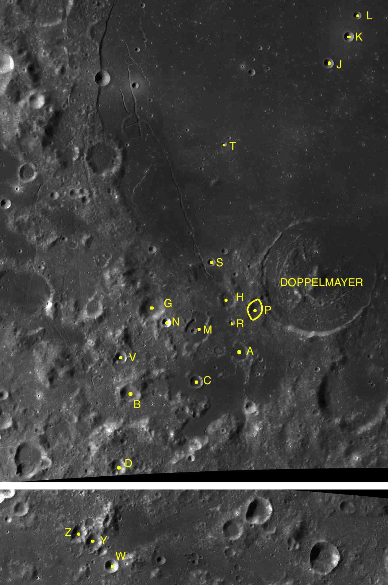 Parts of the charts LAC-93, LAC-110 used for the presentation